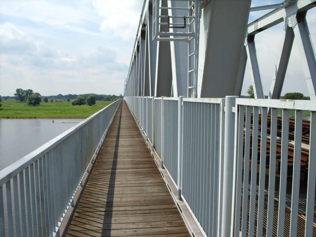 Walkway at railway bridge over Elbe river near Wittenberge, Brandenburg, Germany